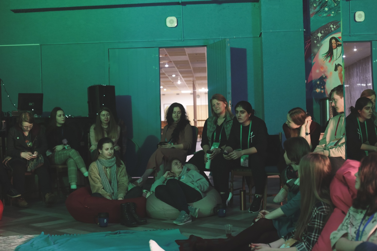 Rest on WPS SPbU-2019